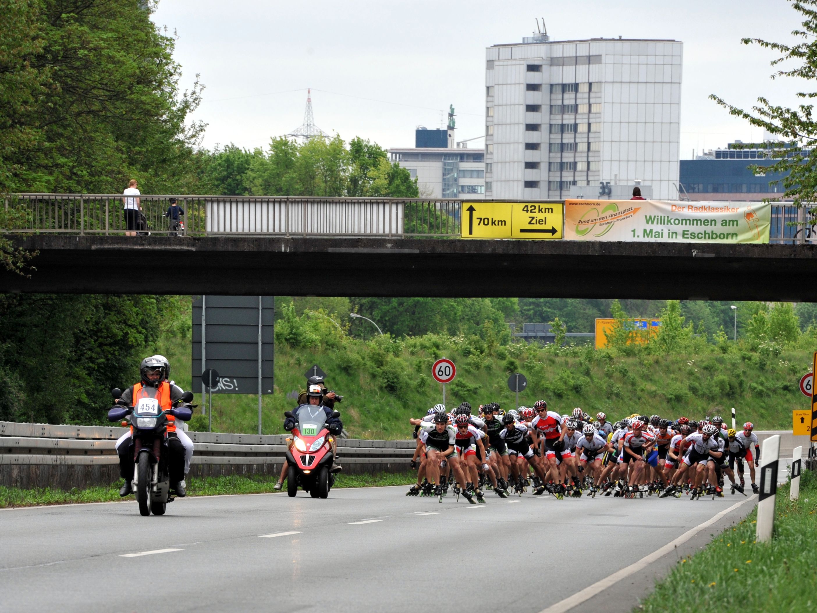 Rhein-Main Skate-Challenge 2012: Marathon Speed/Teams Männer ca. bei km 1 The making of this work was supported by Wikimedia Austria. For other files made with the support of Wikimedia Austria, please see the category Supported by Wikimedia Österreich.